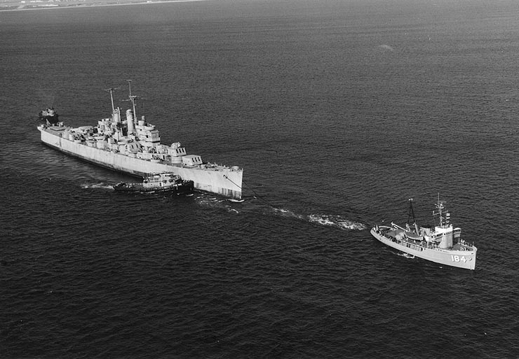 The decommissioned U.S. Navy light cruiser USS Vincennes (CL-64) is towed out of San Diego Bay, California (USA), by USS Kalmia (ATA-184). Assisting are the harbor tugs Muskegon (YTB-763), alongside Vincennes, and Arawak (YTM-702), off Vincennes´ stern. The old cruiser was expended as a target off the coast of Southern California on 28 October 1969. Note that her gun barrels have been cut off.